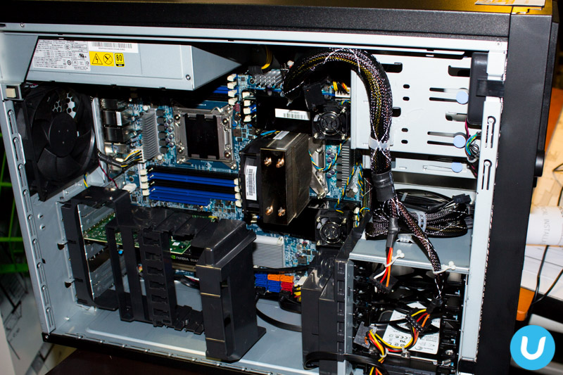 Lenovo ThinkStation P300 launch. This photo shows the workstation internals.